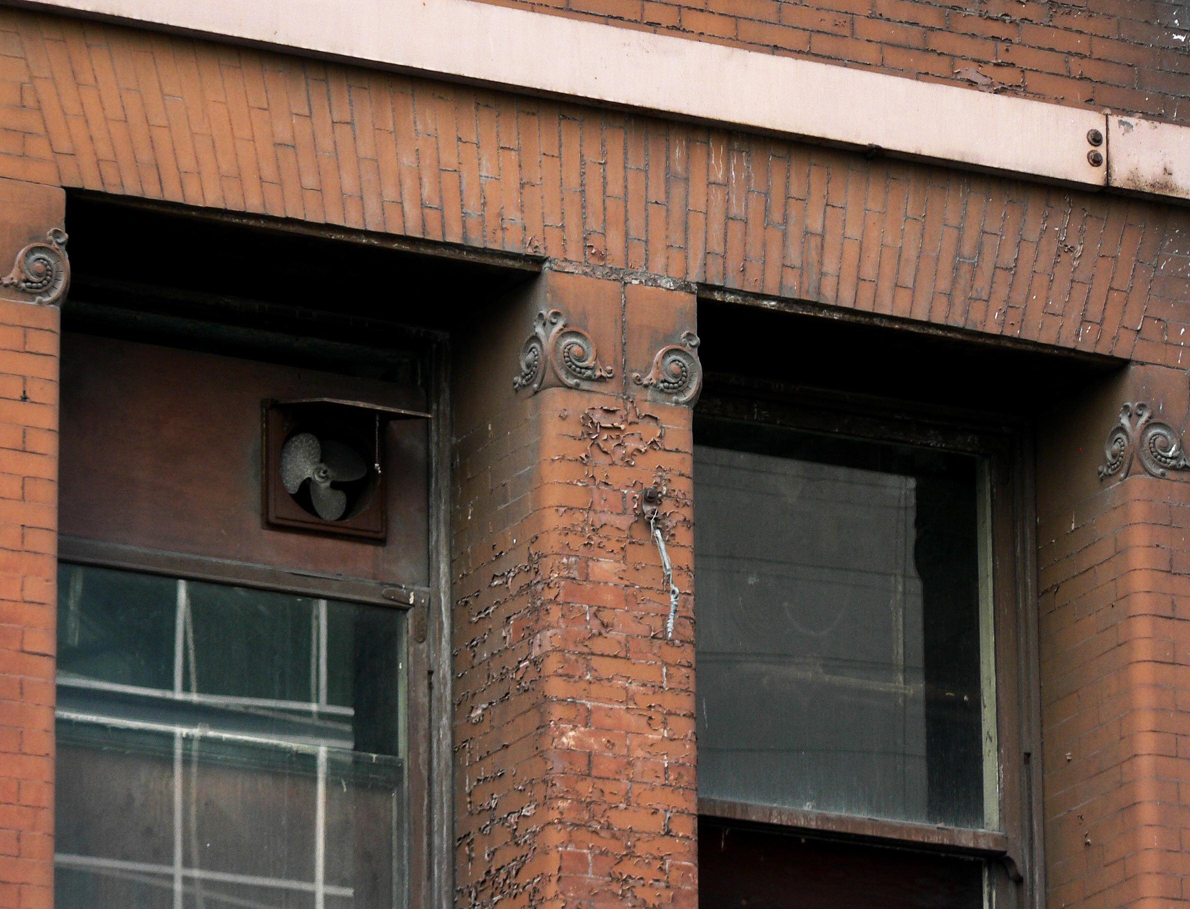 Window detail of the Luzon Building in the theater district of Tacoma WA, USA. The Burnham and Root building had been allowed to deteriorate before finally being razed on September 26, 2009